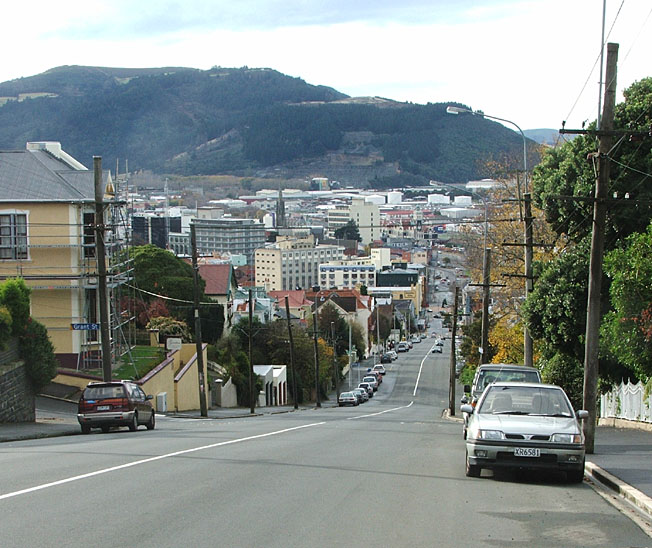 A view down High Street, Dunedin, New Zealand towards the centre city and Signal Hill beyond.